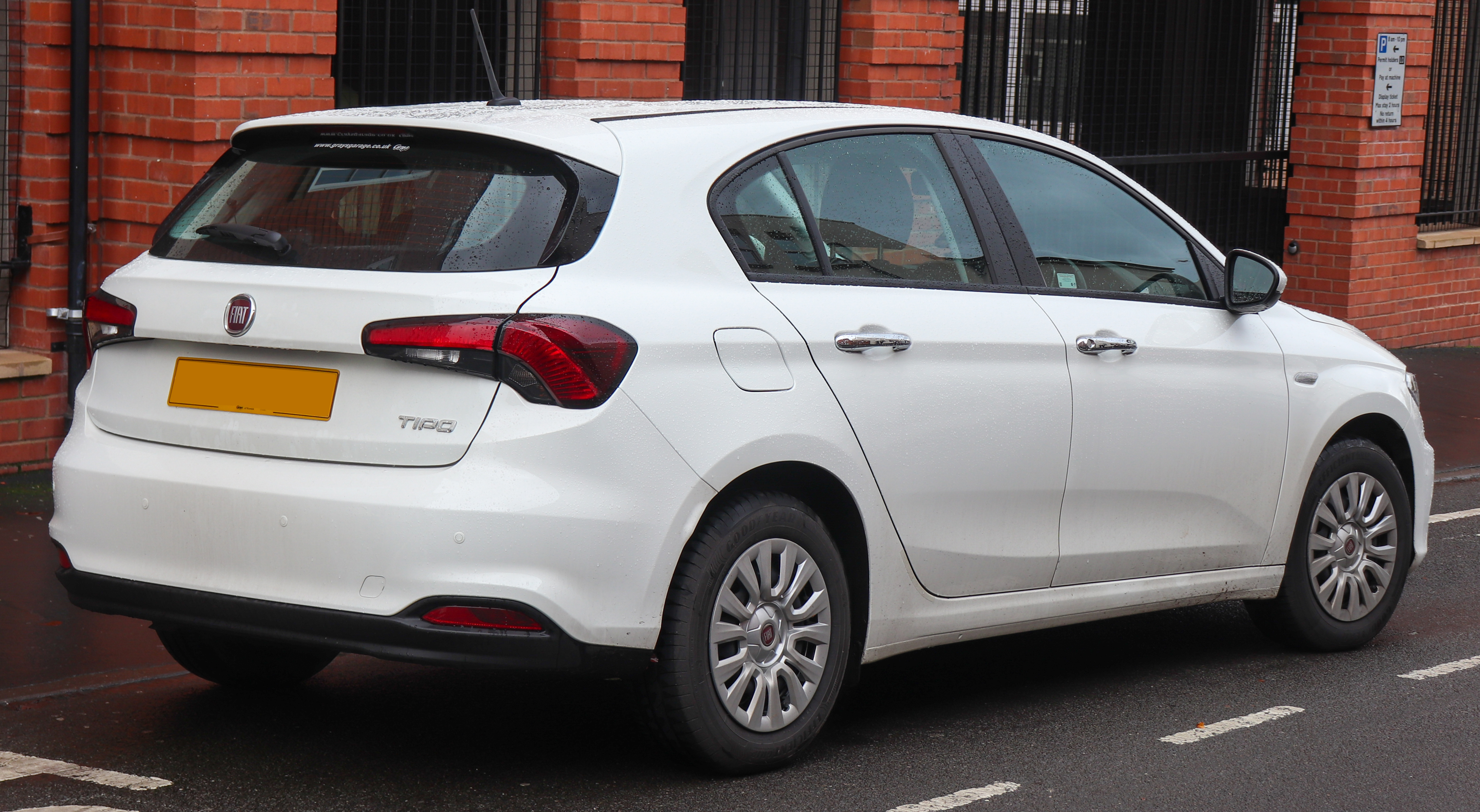 2018 Fiat Tipo Easy 1.4 Rear Taken in Leamington Spa